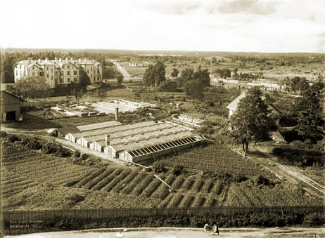 Leppäsuo, Helsinki, in 1907, seen from the end of Malminkatu